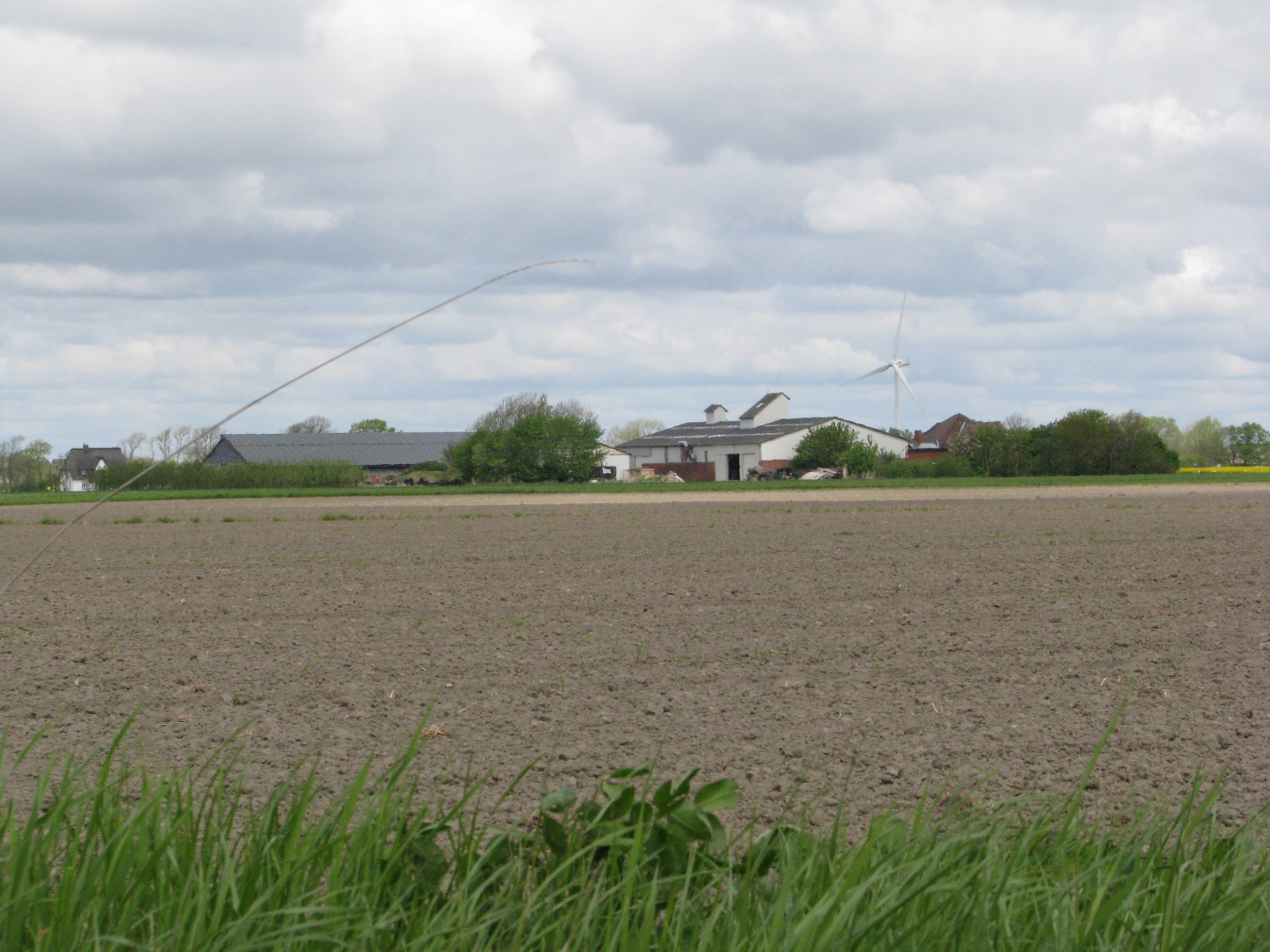 Farm in Desmerciereskoog, municipality of Reußenköge, Germany